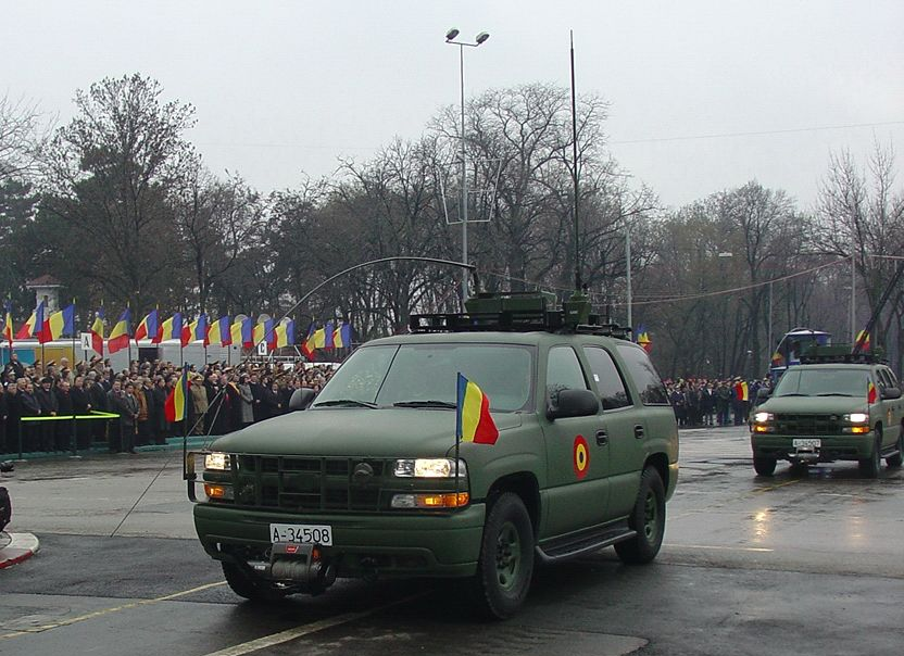 Harris radio stations during the Romanian National Day (1st of December 2005) parade.